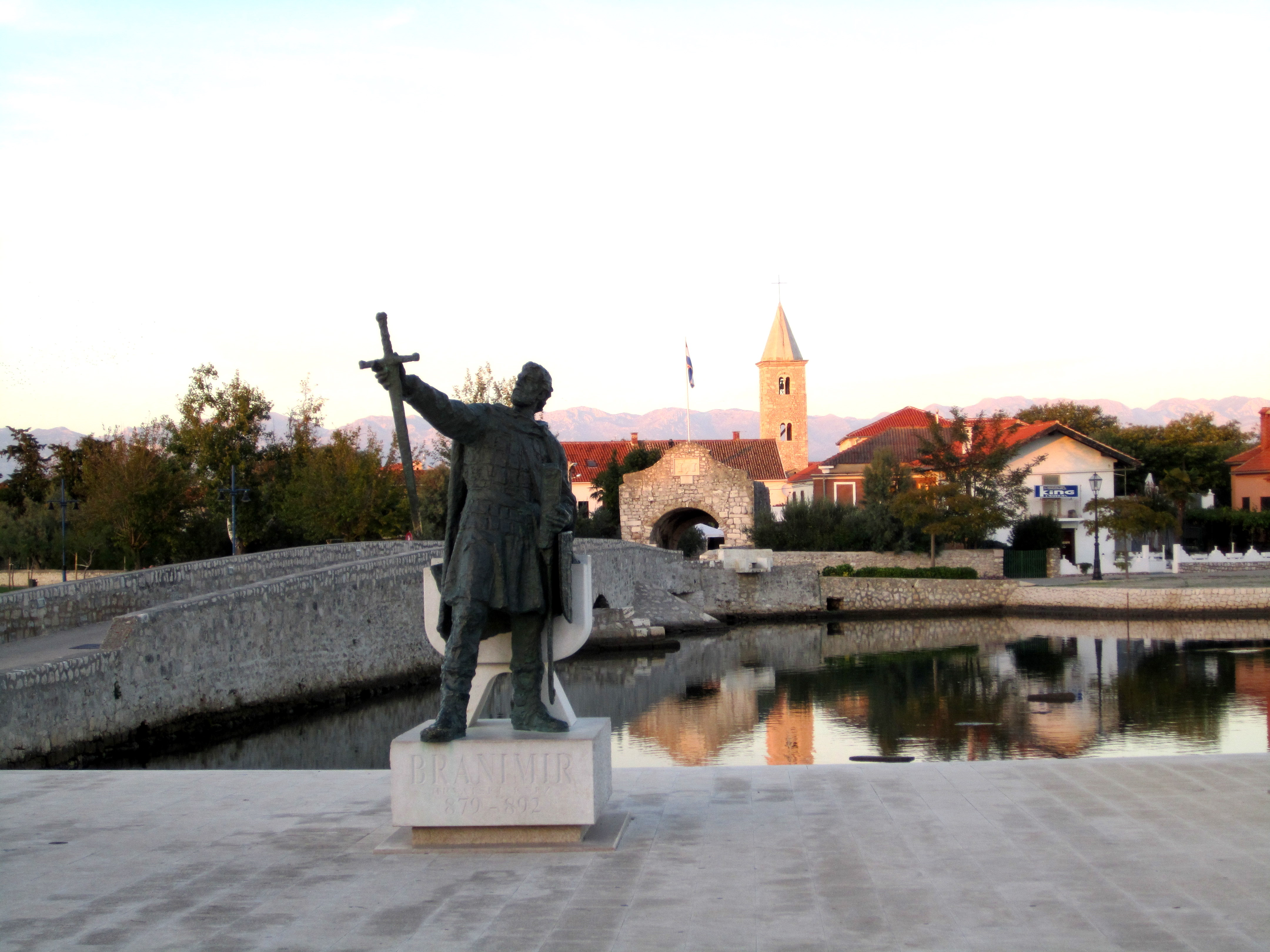 Nin (Croatia)